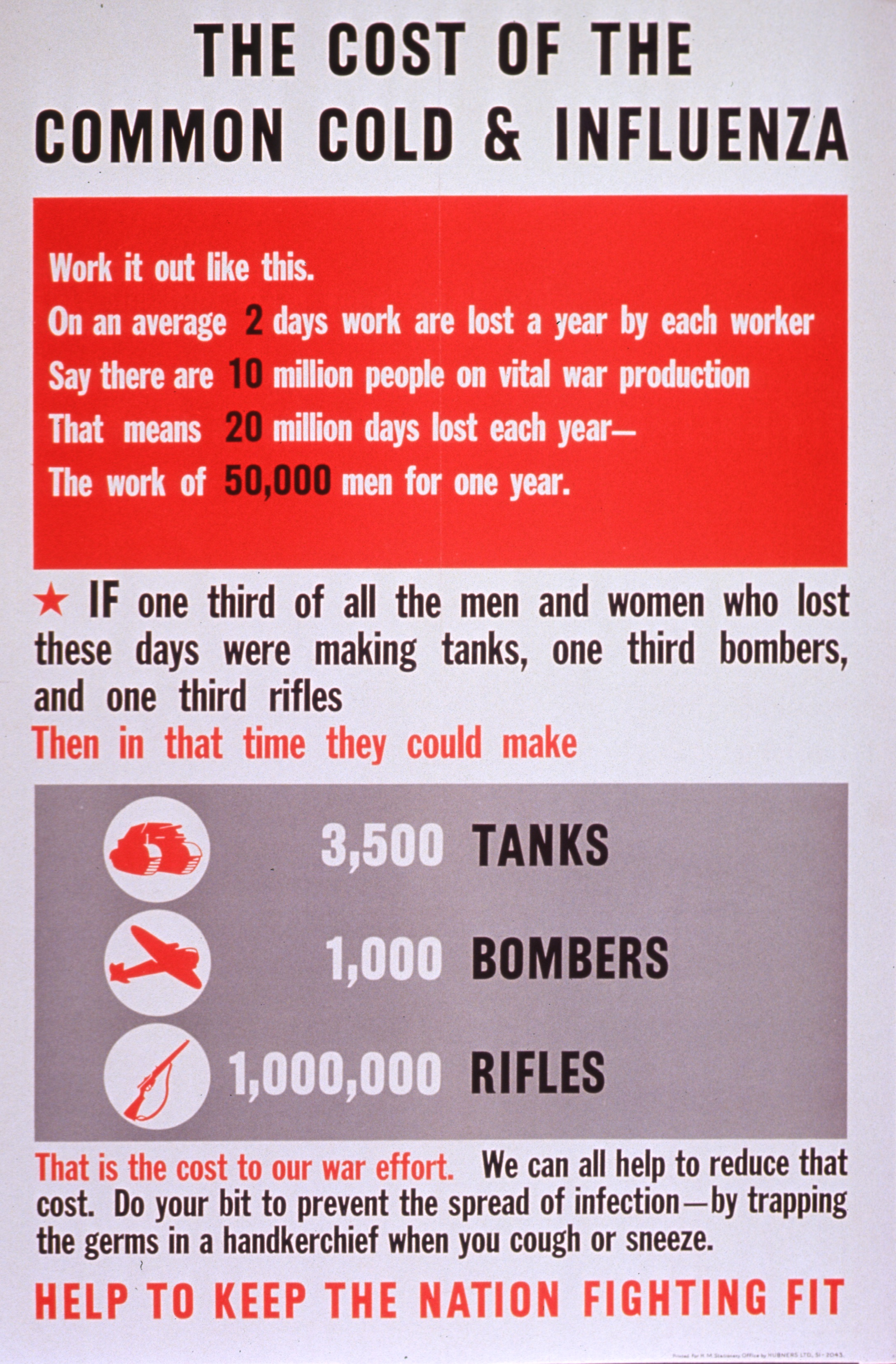 U.S. National Library of Medicine : History of Medicine The Cost Of The Common Cold & Influenza